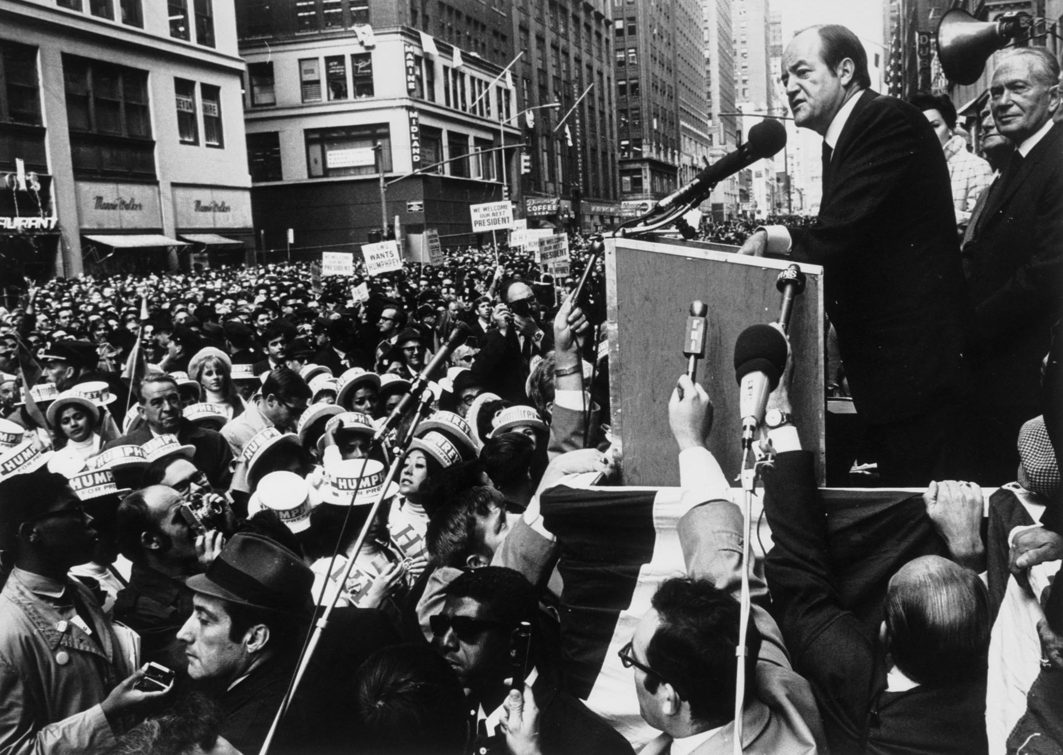 Title: Louis Stulberg looks on as Hubert H. Humphrey gives a speech during his November 15, 1968 presidential campaign. Date: 1968 Photographer: Unknown Photo ID: 5780PB13F17G Collection: International Ladies Garment Workers Union Photographs (1885-1985) Repository: The Kheel Center for Labor-Management Documentation and Archives in the ILR School at Cornell University is the Catherwood Library unit that collects, preserves, and makes accessible special collections documenting the history of the workplace and labor relations. Notes: No additional information available. Copyright: The copyright status of this image is unknown. It may also be subject to third party rights of privacy or publicity. Images are being made available for purposes of private study, scholarship, and research. The Kheel Center would like to learn more about this image and hear from any copyright owners who are not properly identified so that we may make the necessary corrections. Tags: Kheel Center for Labor-Management Documentation and Archives,Cornell University Library,Crowds, Public Figures, Speeches, Union Officers, Labor Leaders